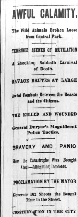 Headline of New York Herald 1874 Central Park Zoo Hoax (November 9, 1874), p 3. - Also